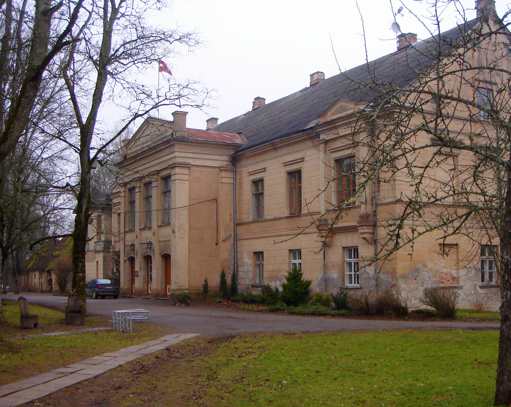 Vārme ManorLatviešu: Vārmes muižas pils